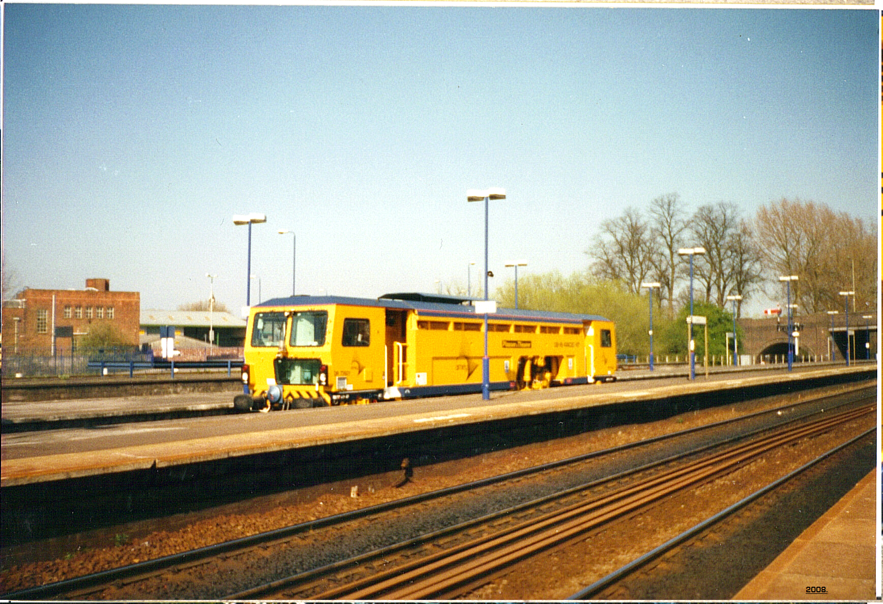 I took this picture of Amey Plc balast/track tamper train at Banbury station my self and release it for use in the public domain.